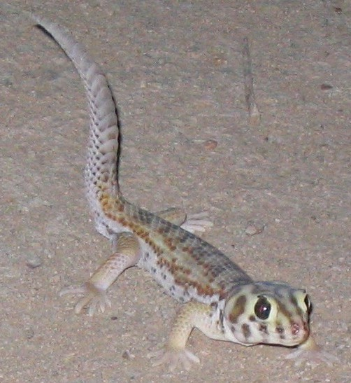 Teratoscincus scincus scincus; Qyzylorda province